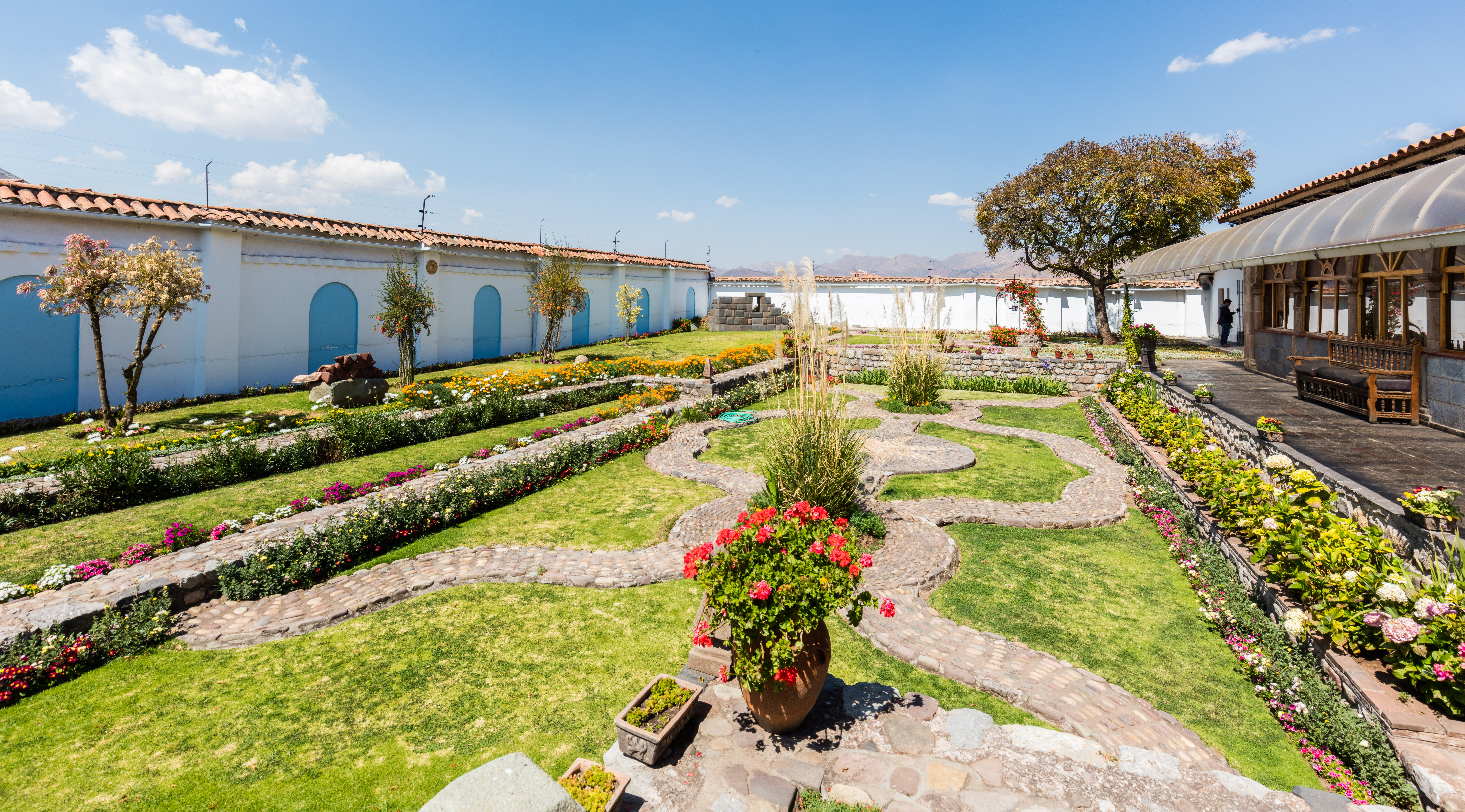 Archbishopric religious art museum, Plaza de Armas, Cusco, Peru